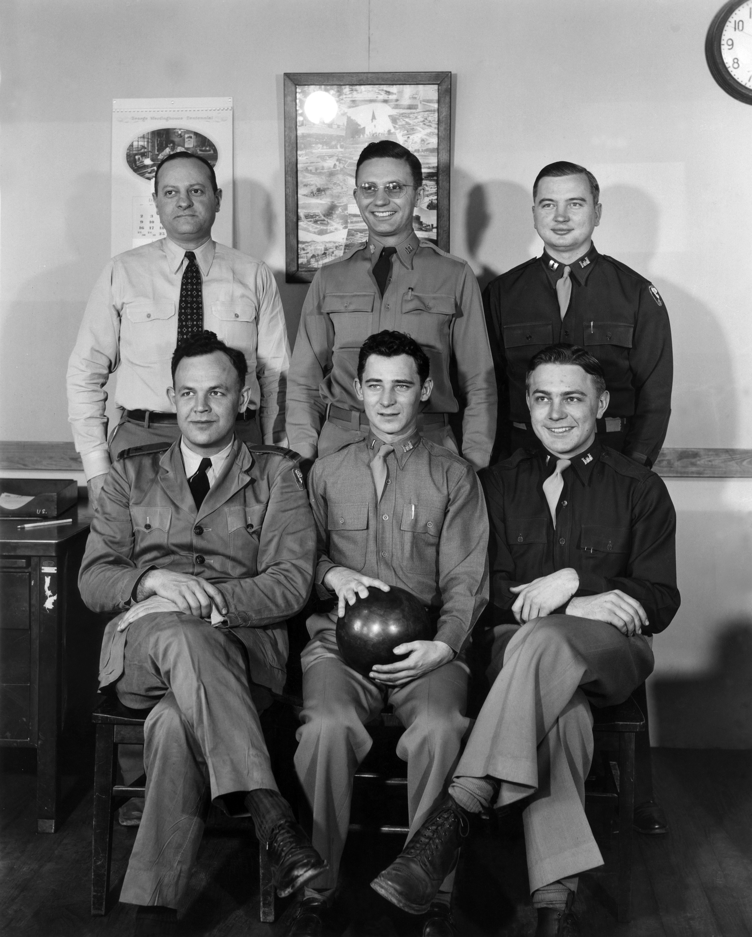 5-362 DOE photo by Ed Wescott Bowling Team Oak Ridge Tennessee 1944